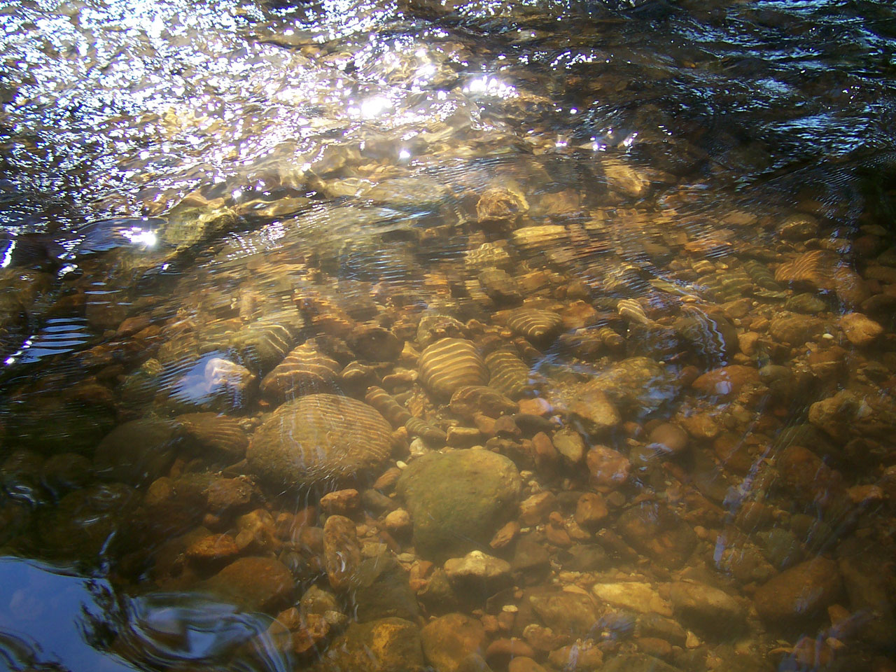 A shallow creek